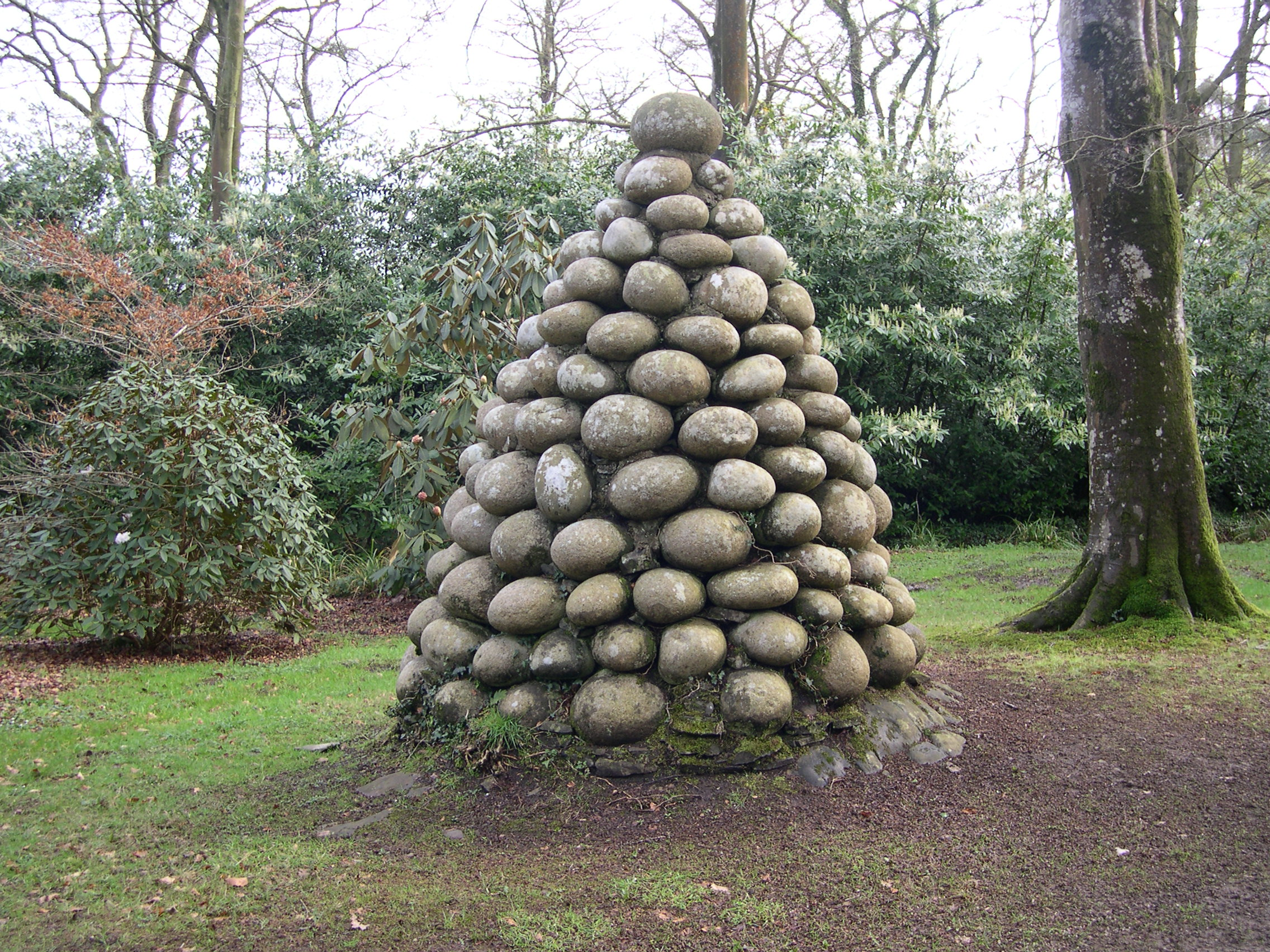 Arrangement of stones at Rowallane Garden Credit: A Peter Clarke image